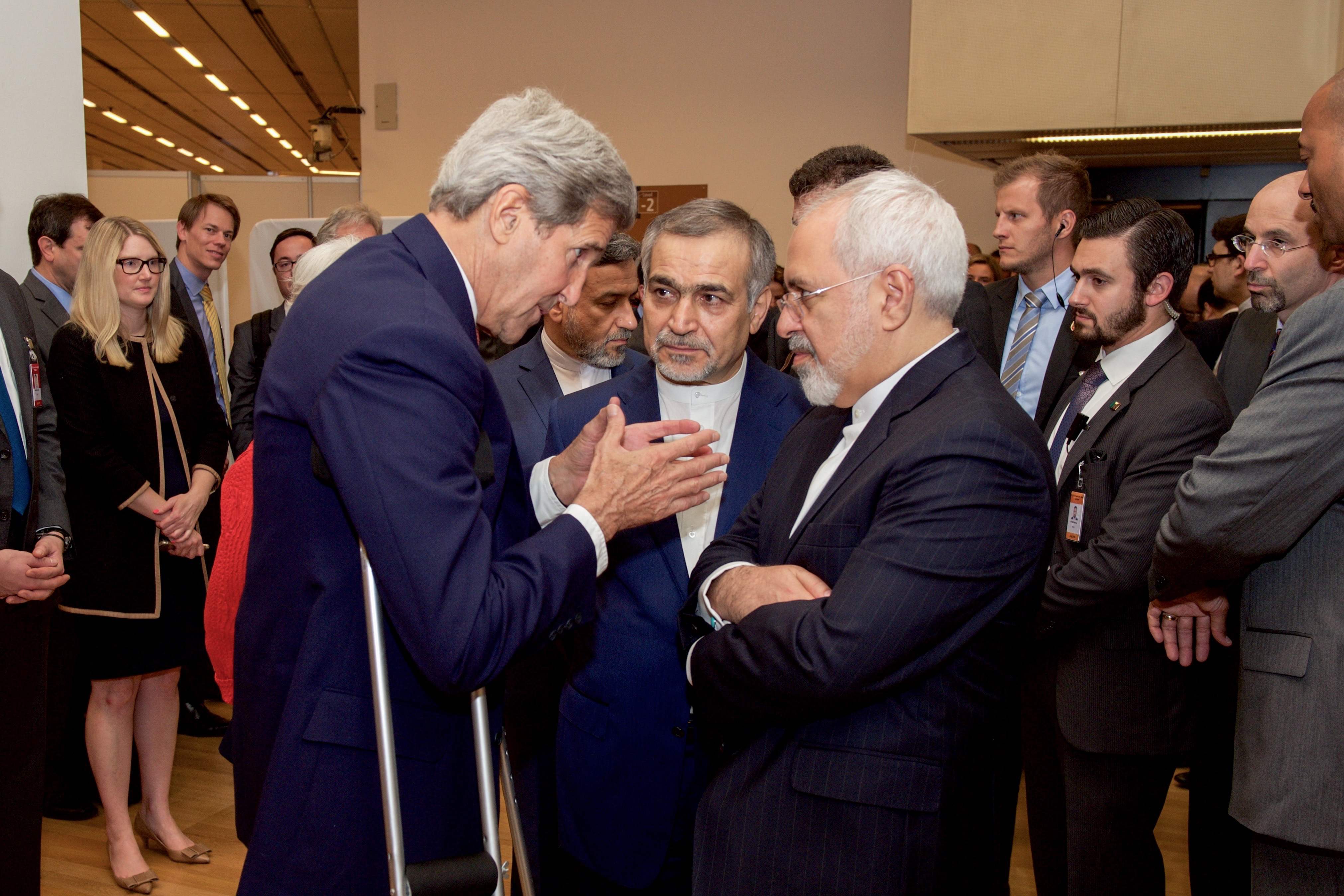 U.S. Secretary of State John Kerry speaks with Hossein Fereydoun, the brother of Iranian President Hassan Rouhani, and Iranian Foreign Minister Javad Zarif, before the Secretary and Foreign Minister addressed an international press corps gathered at the Austria Center in Vienna, Austria, on July 14, 2015, after the European Union, United States, and the rest of its P5+1 partners reached agreement on a plan to prevent Iran from obtaining a nuclear weapon in exchange for sanctions relief. [State Department photo/ Public Domain]